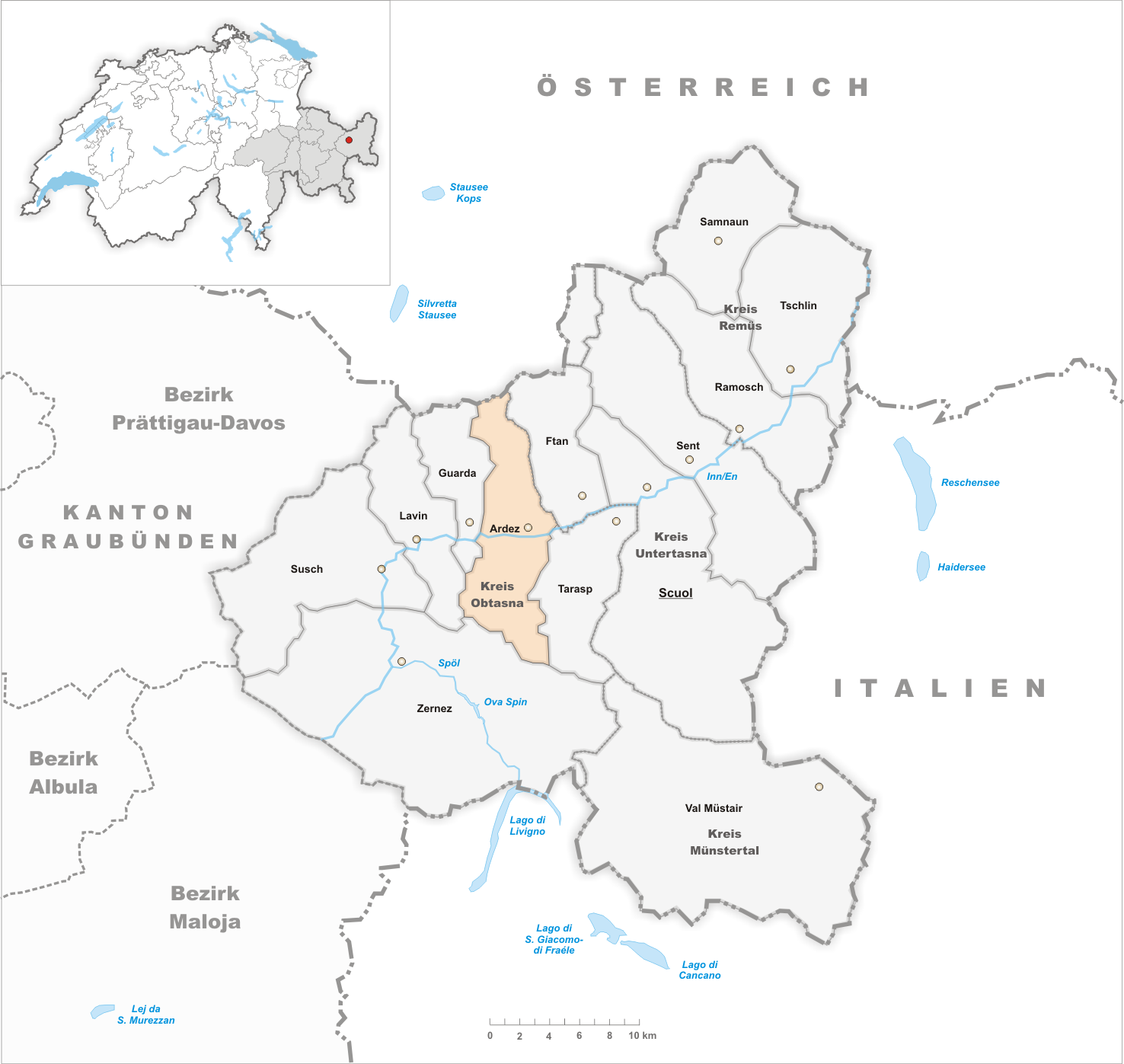 Municipality Ardez